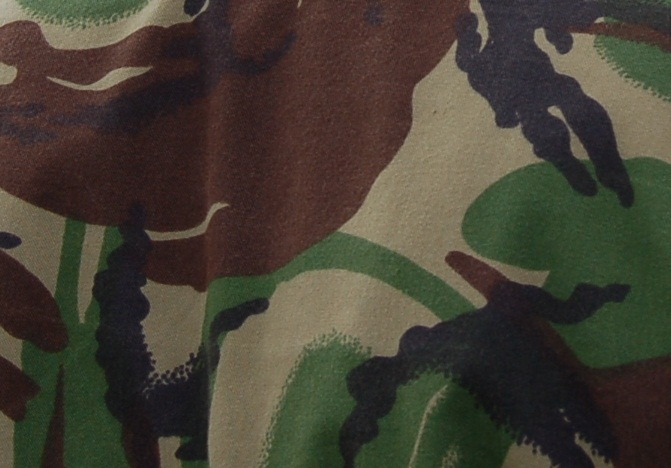 Closeup detail of rear of UK CS95 DPM lightweight jacket (shirt)